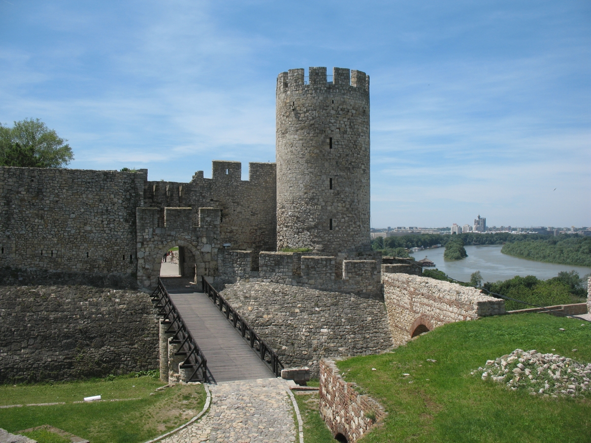 Despots Tower with gate in Belgrade fortress, Serbia.